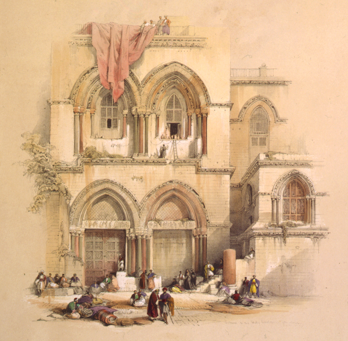 Cropped image of title page of The Holy Land, Syria, Idumea, Arabia, Egypt and Nubia / from drawings made on the spot by David Roberts